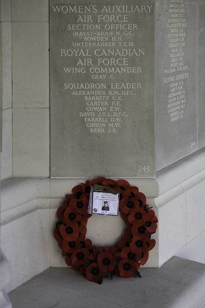 Noor Inayat-Khan's inscription on Panel 243 at the Air Forces Memorial England memorialising those without a known grave